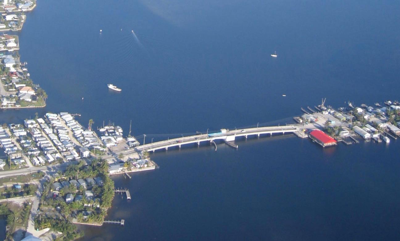 Aerial view of the old Matlacha Bridge and part of West Island in 2008. Built in 1968 and carrying Pine Island Road over Matlacha Pass, this bridge was replaced in 2012 by a new bridge. The old and new both included single-leaf bascule draw spans.